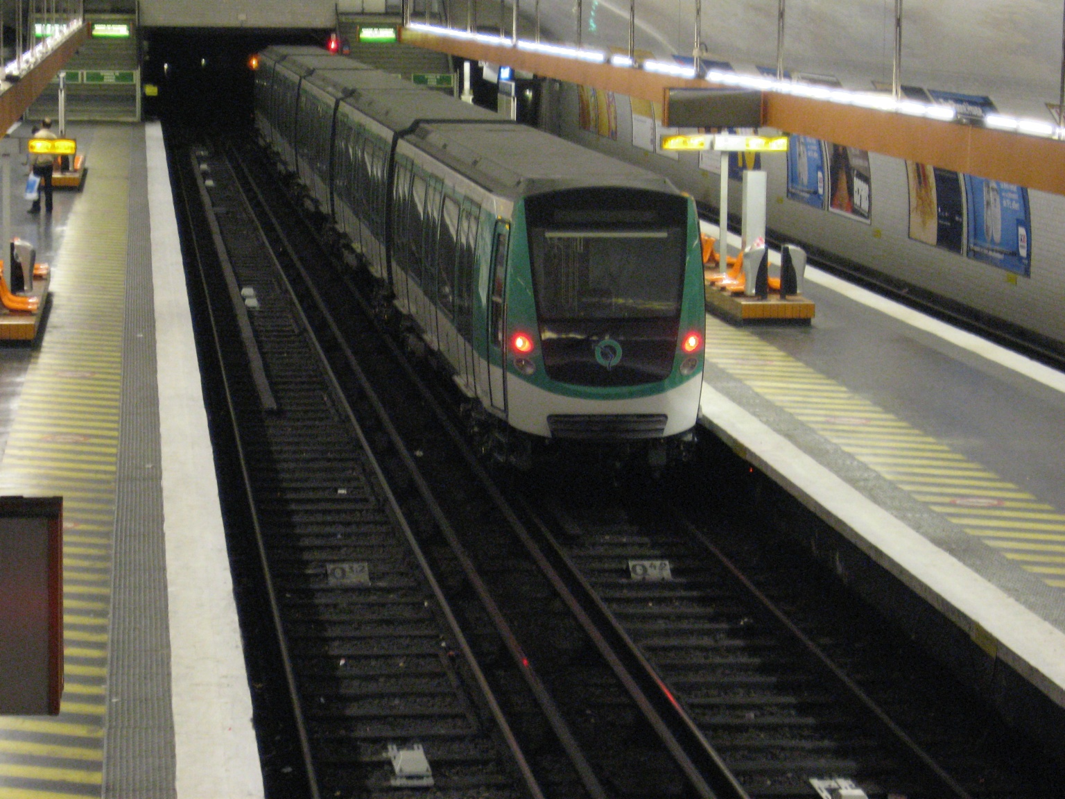 MF 2000, Paris rail métro new rolling stock, parked at Porte de Charenton (line 8) for testing